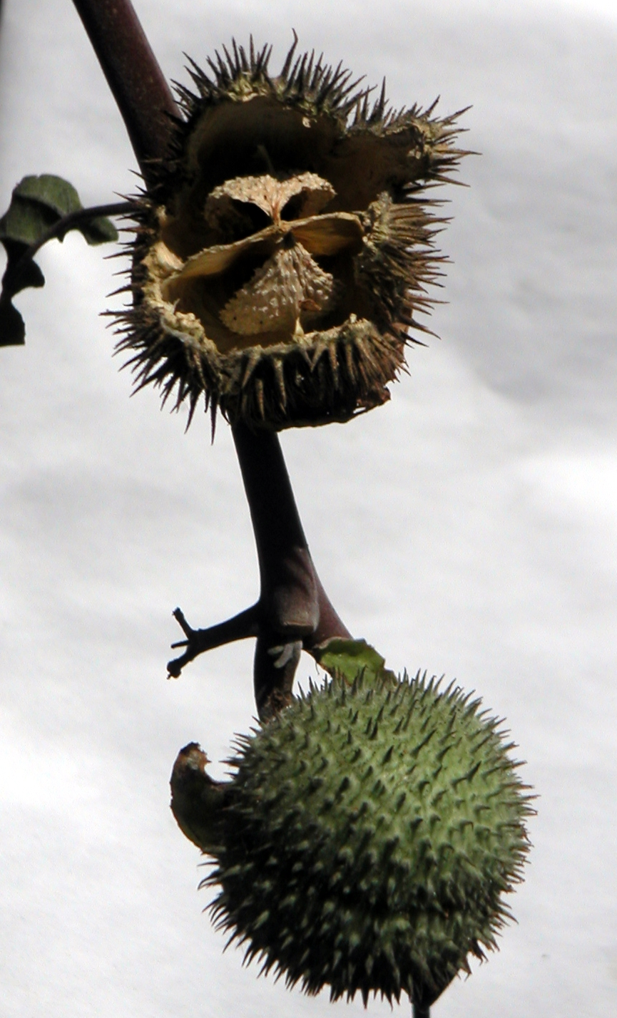 Fruit, fresh and dried, of a Datura plant. Picked from the wild in California, so possibly Datura wrightii.